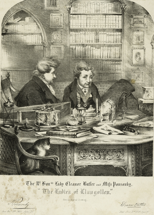 Lithograph: Lady Eleanor Butler and Sarah Ponsonby, genteel Irishwomen who eloped to Wales, were famous for their romantic devotion to each other, and became known as the Ladies of Llangollen.